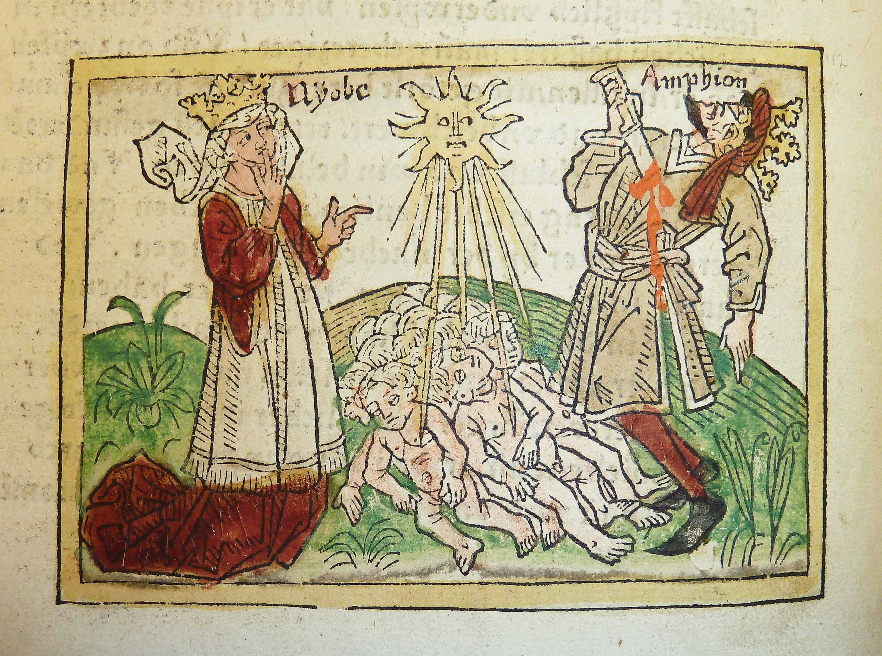 Woodcut illustration (leaf [c]9v, f. [xix]) of Niobe, Amphion and their dead sons, hand-colored in red, green, yellow and black, from an incunable German translation by Heinrich Steinhöwel of Giovanni Boccaccio's De mulieribus claris, printed by Johannes Zainer at Ulm ca. 1474 (cf. ISTC ib00720000). One of 76 woodcut illustrations (1 on leaf [e]8v dated 1473), each 80 x 110 mm., depicting scenes from the life of the women chronicled (for a full list of subjects, cf. W.L. Schreiber, Handbuch der Holz- und Metallschnitte des XV. Jahrhunderts (Nendeln: Kraus Reprints, 1969), no. 3506). "Pour la première moitie le nom se trouve inscrit à côte de la tête de chaque femme, pour le reste il es ajouté entre les deux réglettes. Il n'y en a que trois, qui n'ont qu'un seul trait carré."--Schreiber. Established form: Zainer, Johannes, ‡d d. 1541?. Established form: Niobe (Greek mythology) Penn Libraries call number: Inc B-720 All images from this book Penn Libraries catalog record